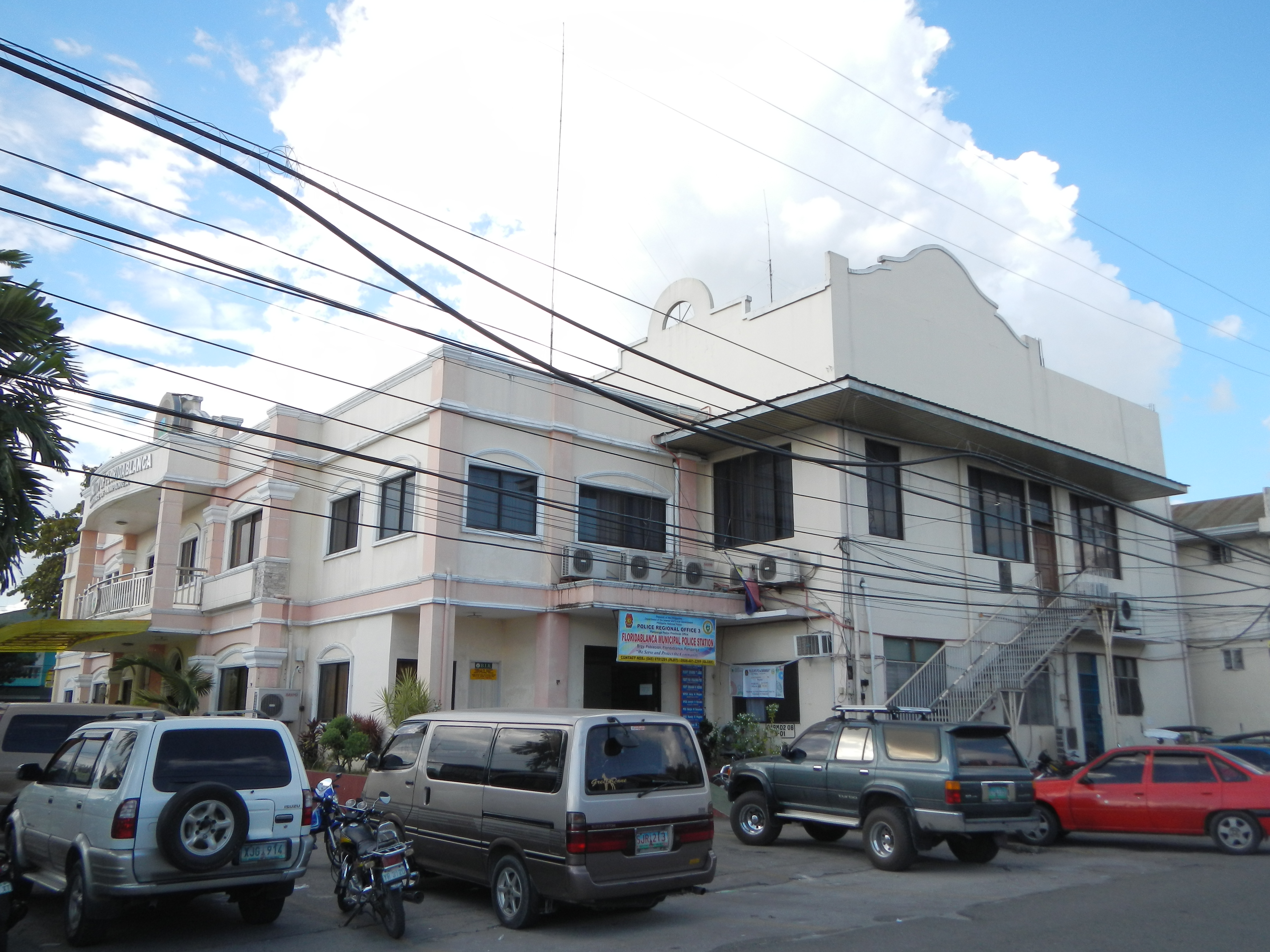 Floridablanca, Pampanga [1][2]